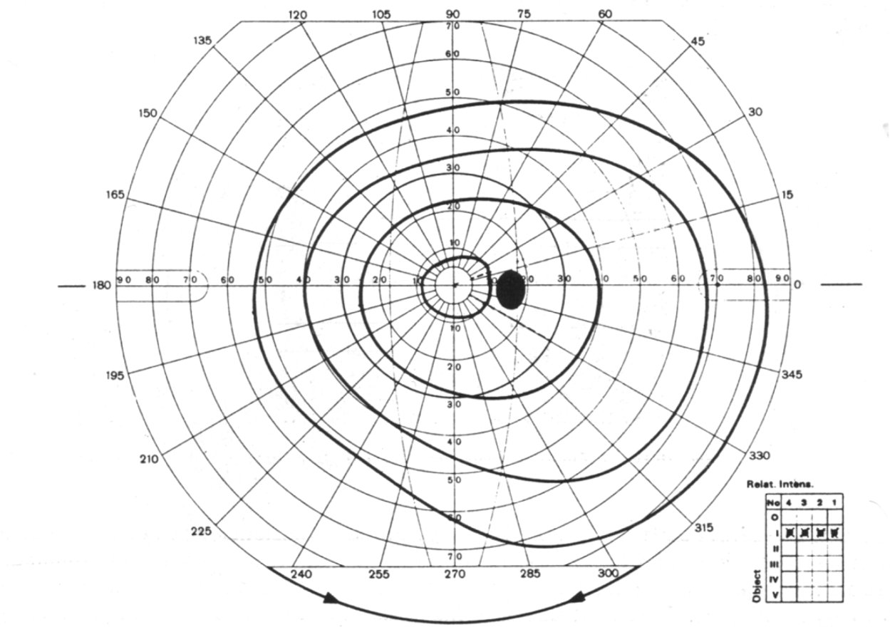 normal right eye visual fild by campimeter